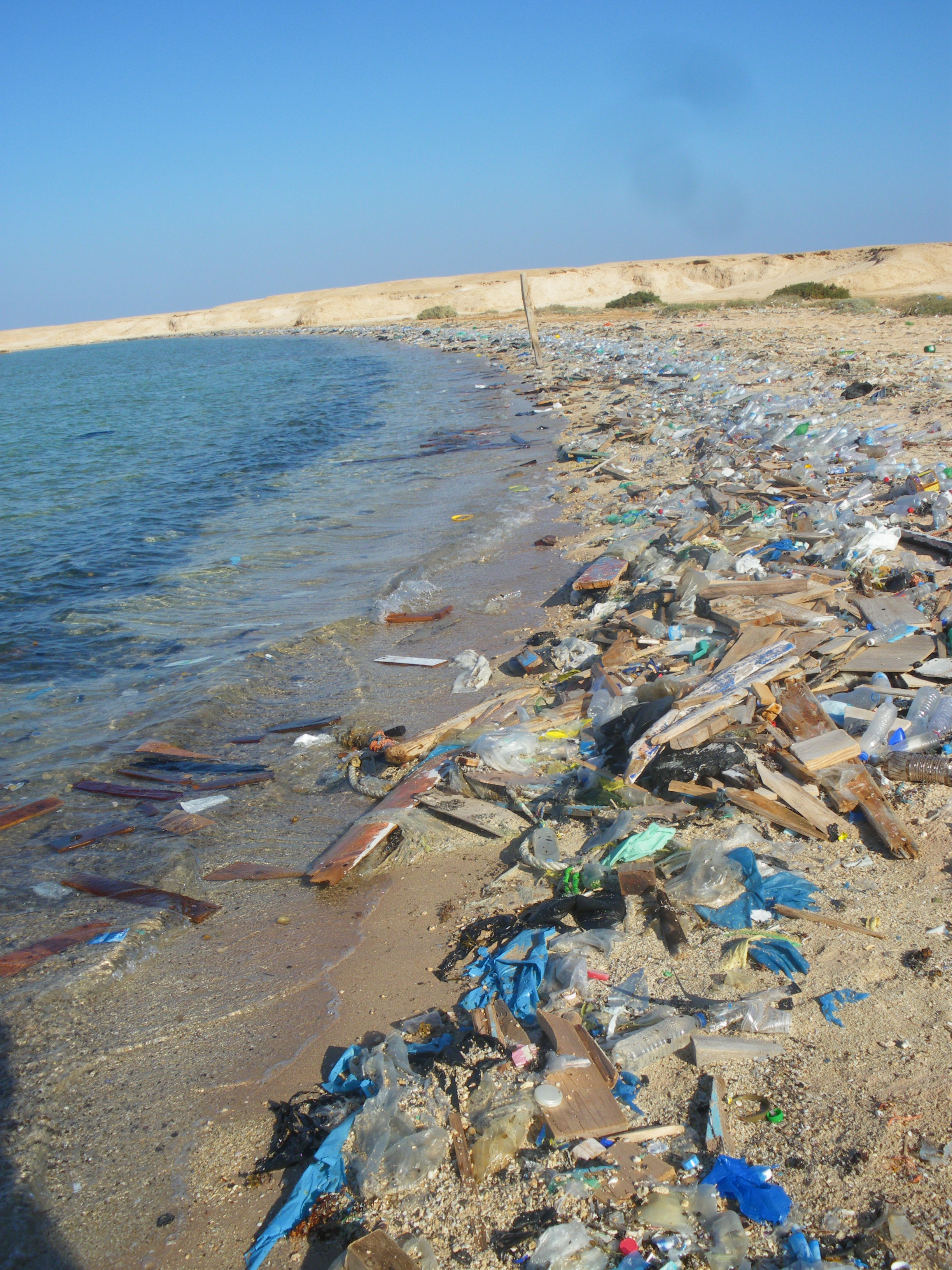 Polluted Beach on the Red Sea in Sharm el-Naga, Port Safaga, Egypt]